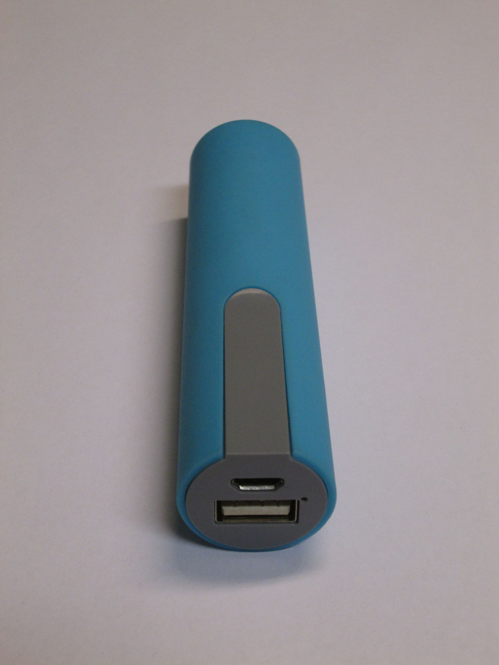 Akupank